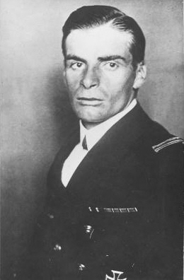 Gottfried Freiherr von Banfield, Austro-Hungarian naval aeroplane aviator.